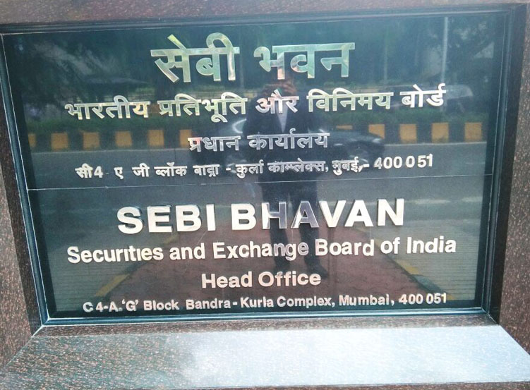 SEBI bhawan, Mumbai